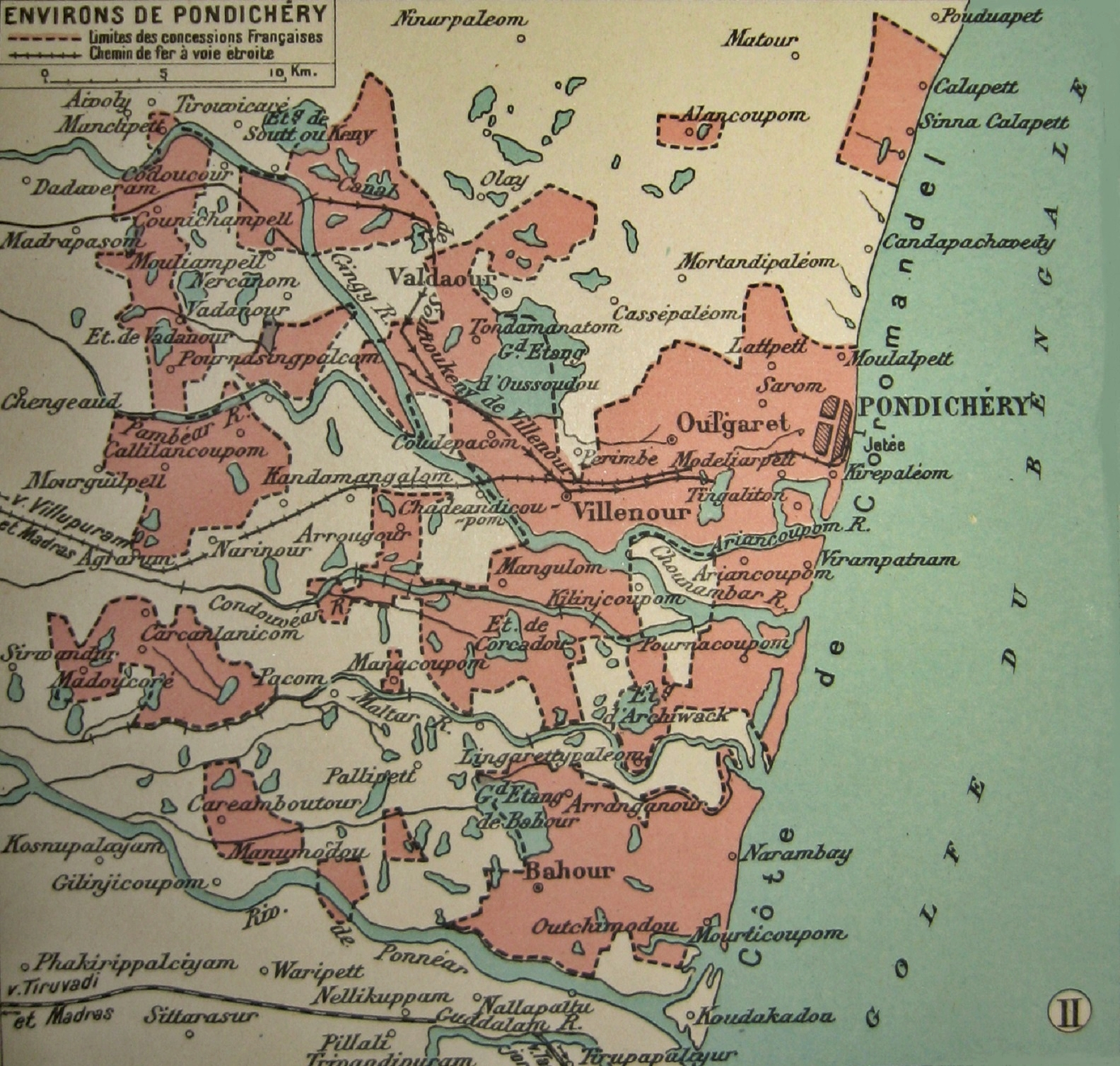 Map of the Territory of Pondicherry (Pondichéry) the main territory of French India. Not only was French India made of five non-contiguous parts, but the main territory, Pondicherry, was made of a dozen non-contiguous pieces enclaved within British India. This jigsaw puzzle geography harked back to the time when France regained control of its Indian possessions at the end of the Napoleonic wars. The geographical configuration of the present-day District of Puducherry, Union Territory of Puducherry, is exactly the same. Atlas colonial français, L'Illustration, 1931.